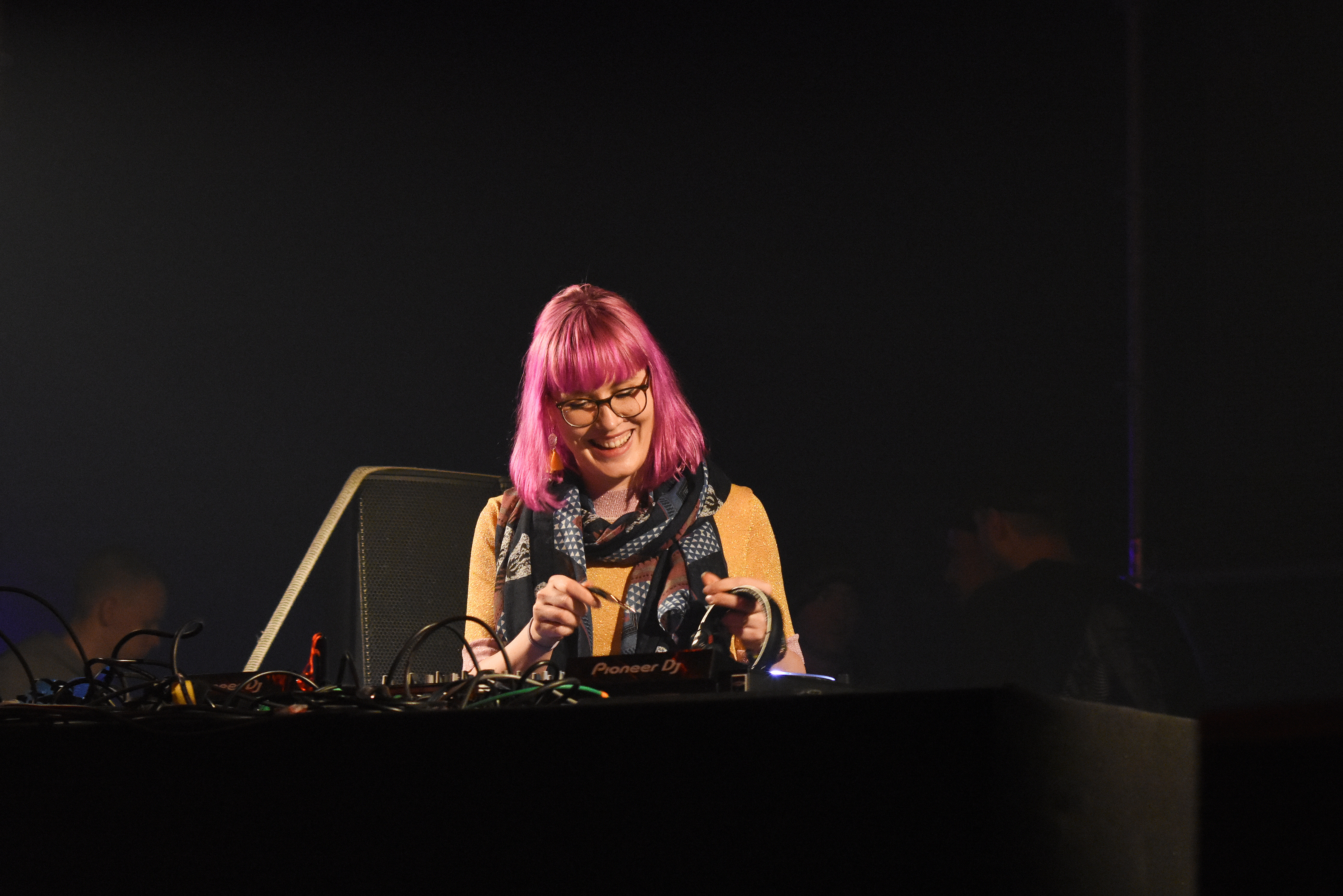 DJane Bebetta at Sputnik Spring Break 2018